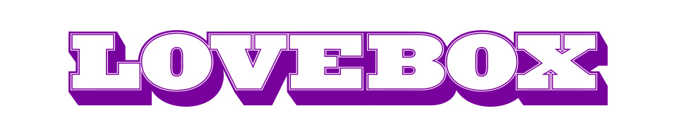 Lovebox Logo